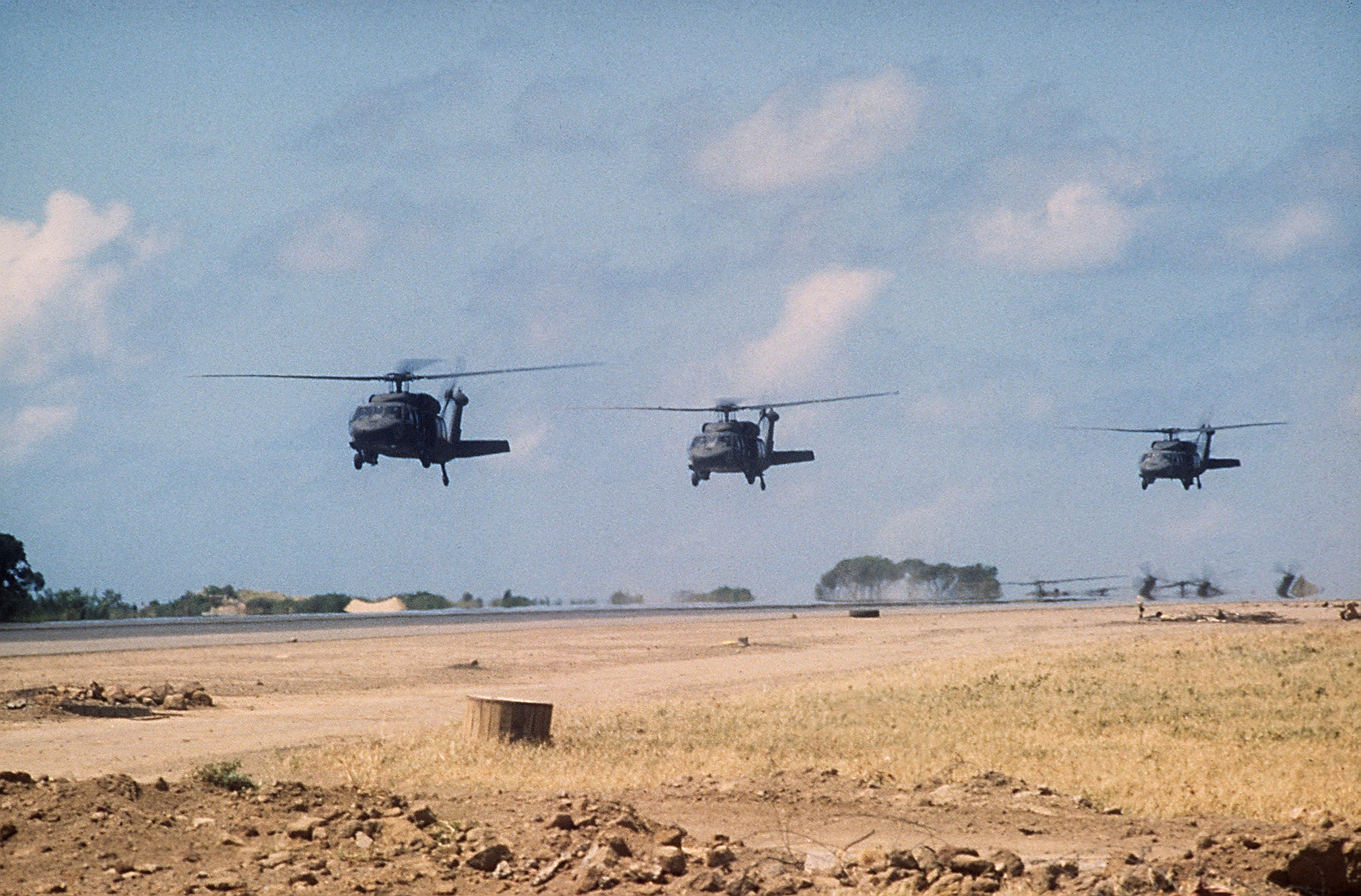 Three U.S. Army Sikorsky UH-60A Black Hawk helicopters prepare to touch down next to the Point Salines airport runway during "Operation Urgent Fury" on 25 October 1983.